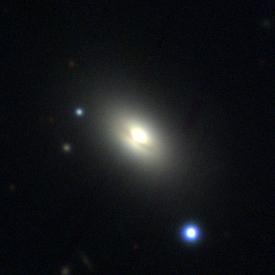 PanSTARRS image of NGC 703.